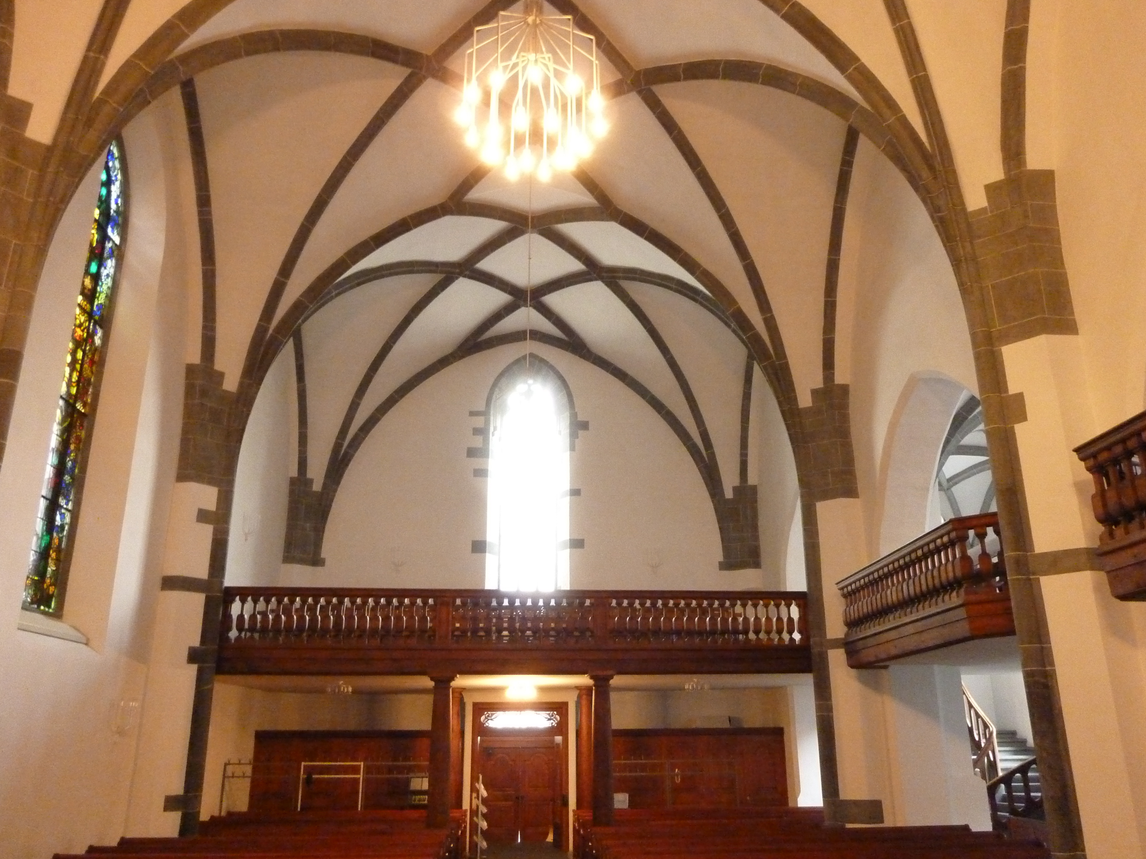 St. Martin Chur